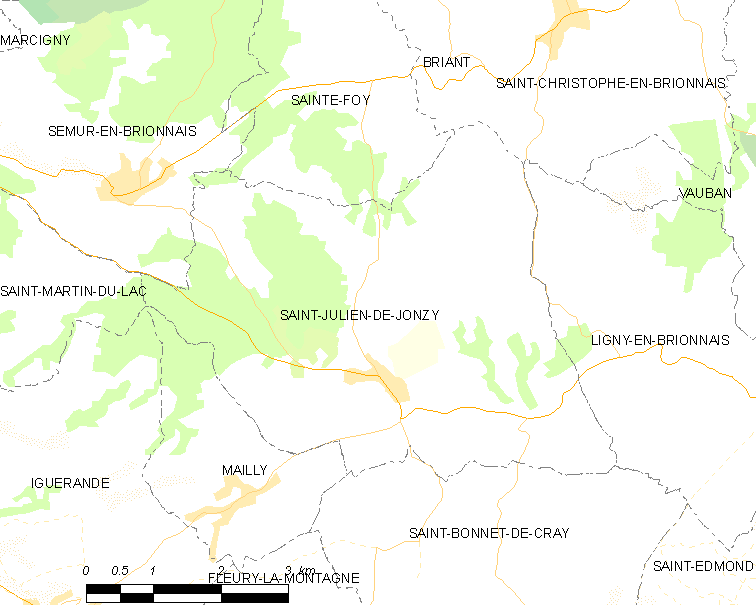 Map of French municipality